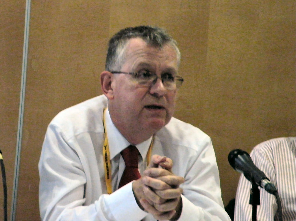 Richard Newby, Baron Newby at a fringe meeting of the 2011 Liberal Democrats autumn conference in Birmingham